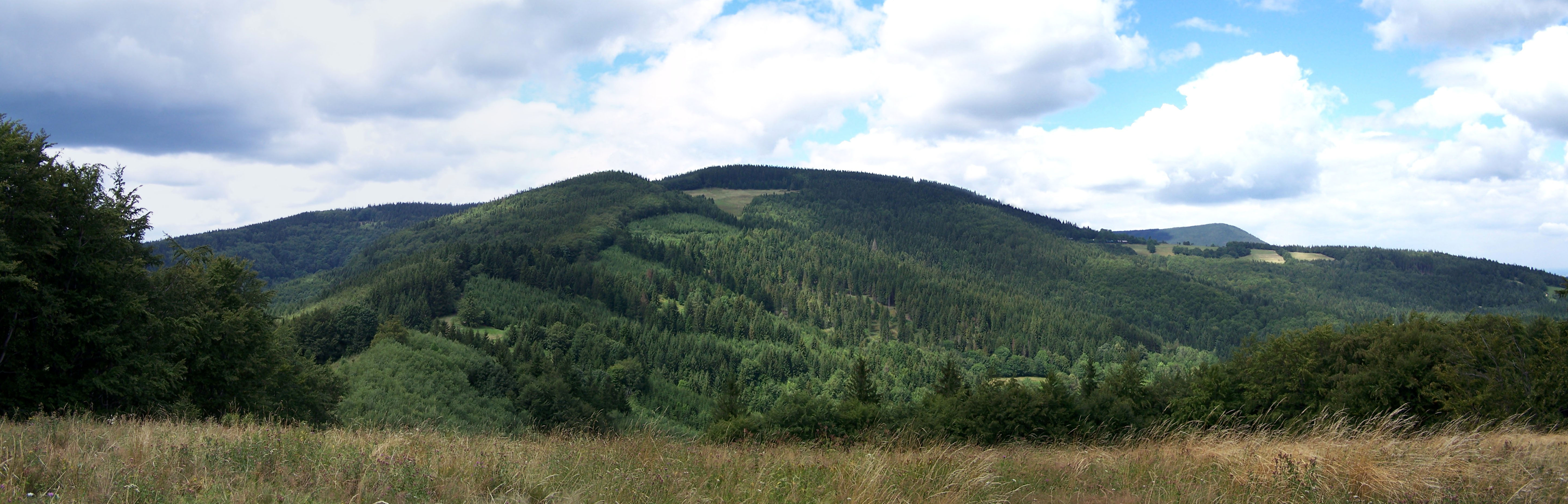 Kozubová (Kozubowa) seen from Malá Kykula (Mała Kikula), Moravian-Silesian Beskids mountain range, Czech Republic